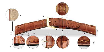 Details of a watch strap